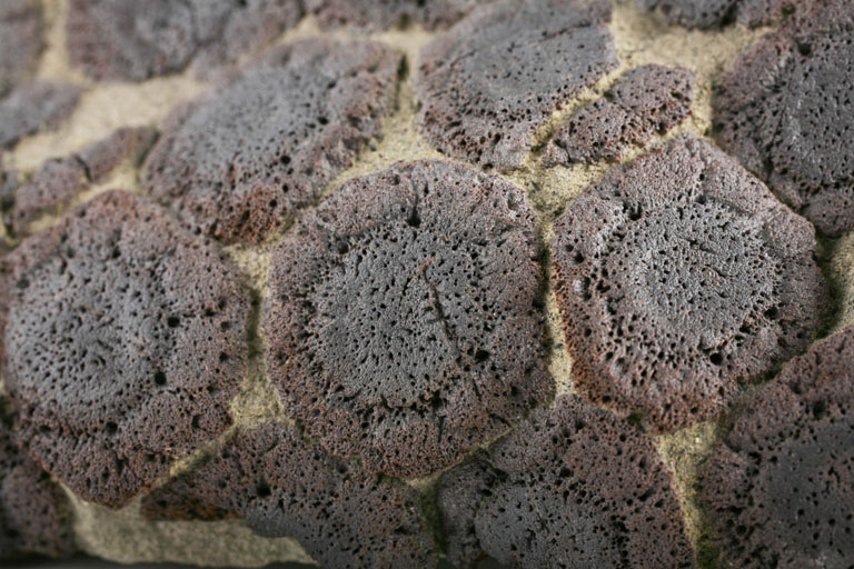 A glyptodont scute in the permanent collection of The Children’s Museum of Indianapolis.